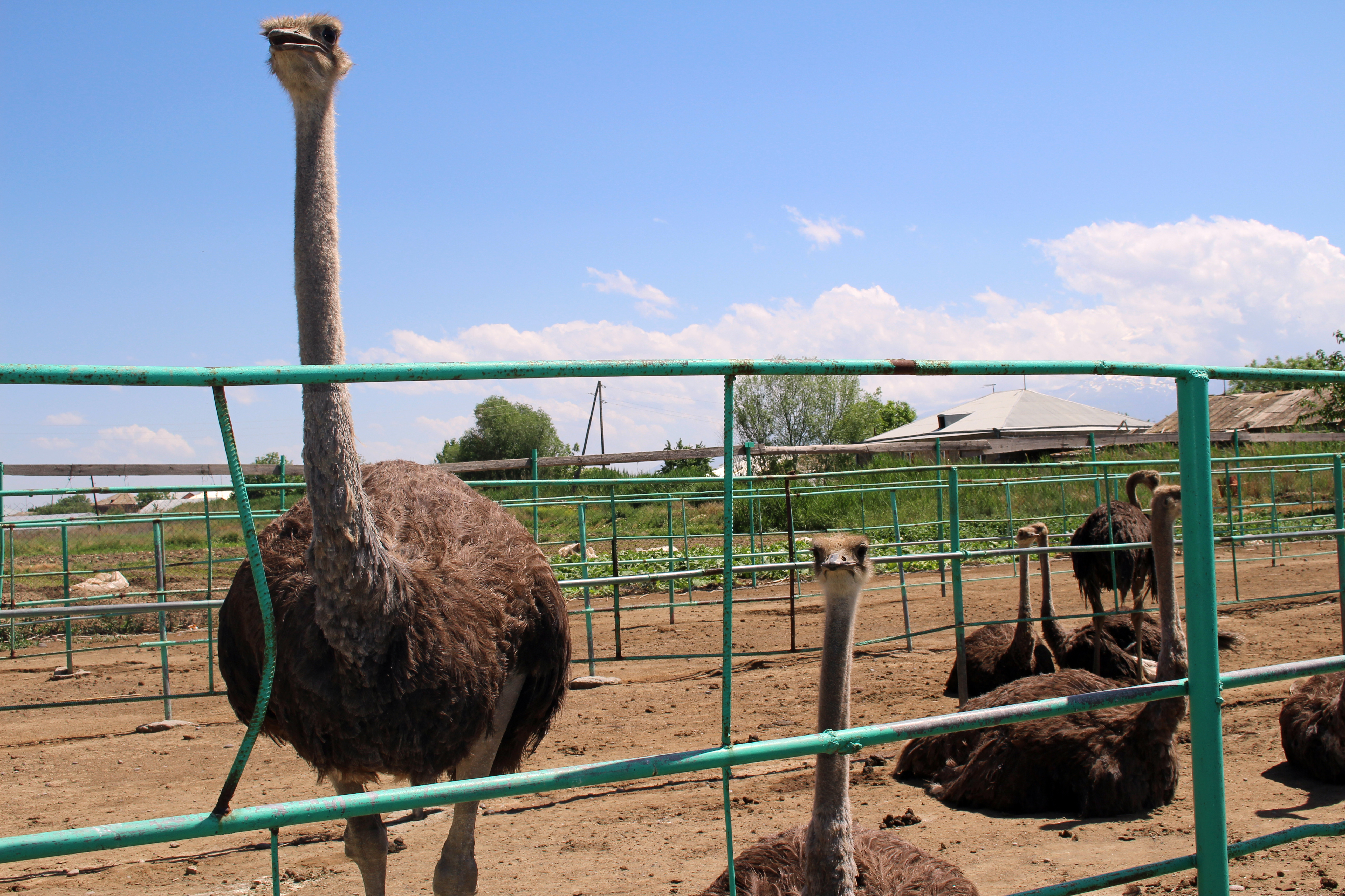 Ostrich farming in Armenia.